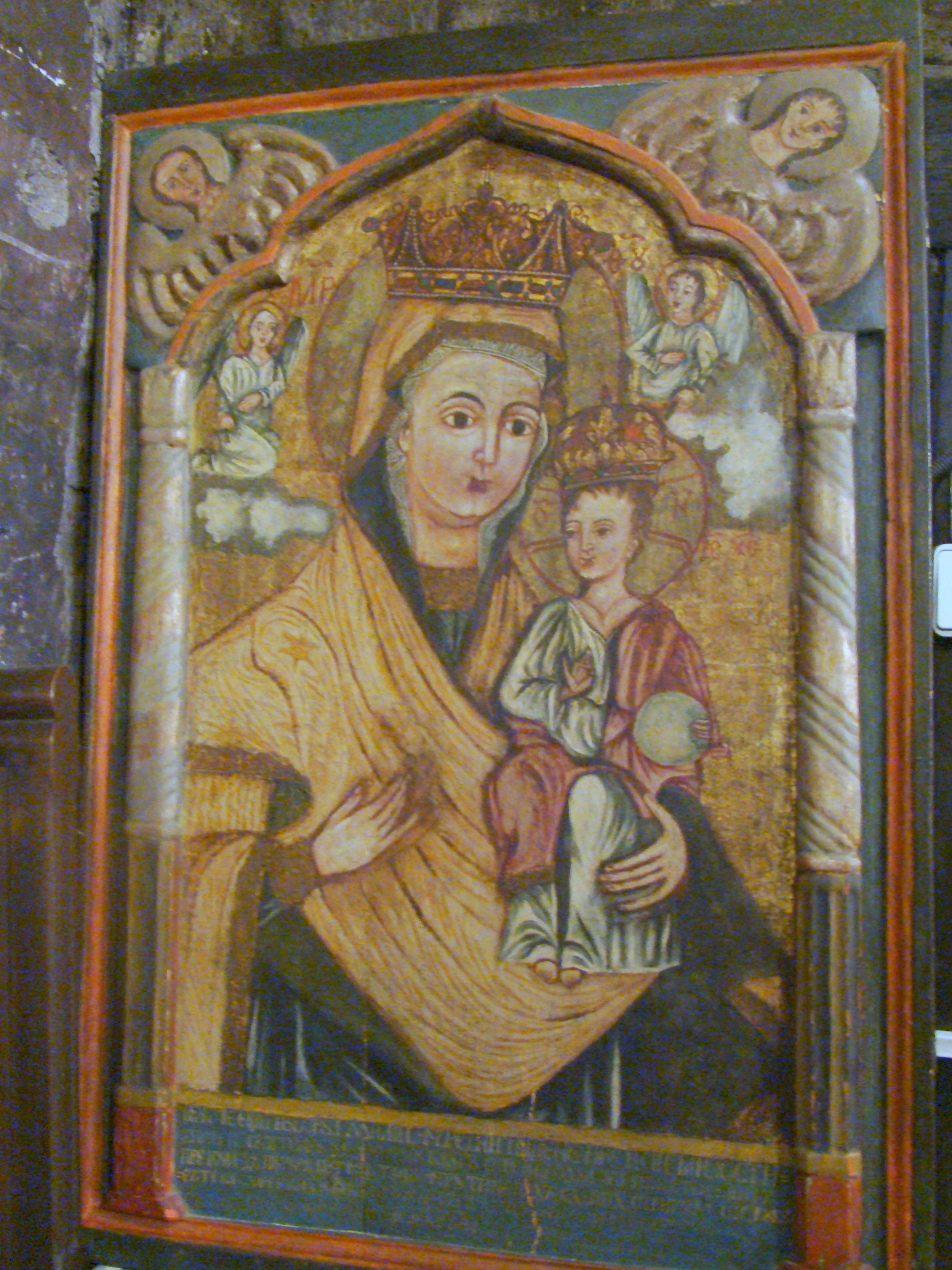 Saint Nicholas church in Hunedoara, Hunedoara county, Romania